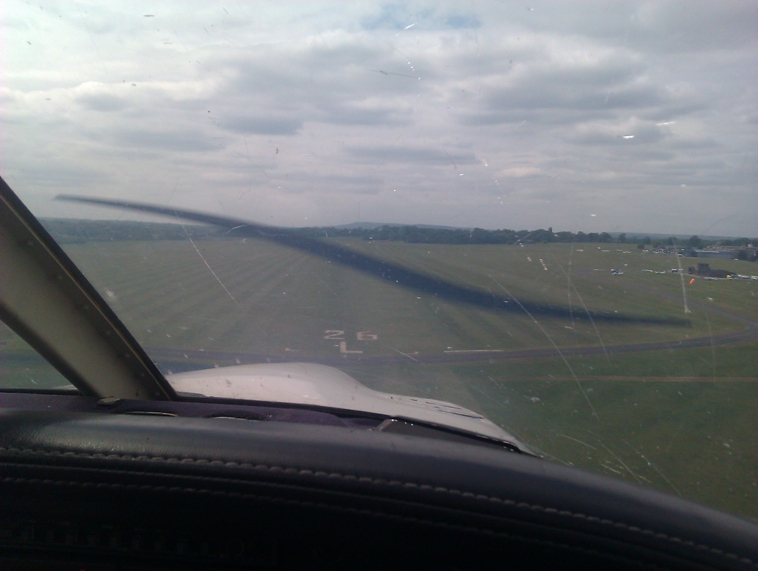 About to touchdown on runway 26L at Redhill Aerodrome